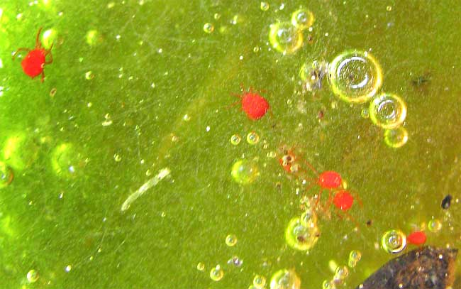 Water mites in a mat of floating algae. They look like members of the genus Hydrophantes.